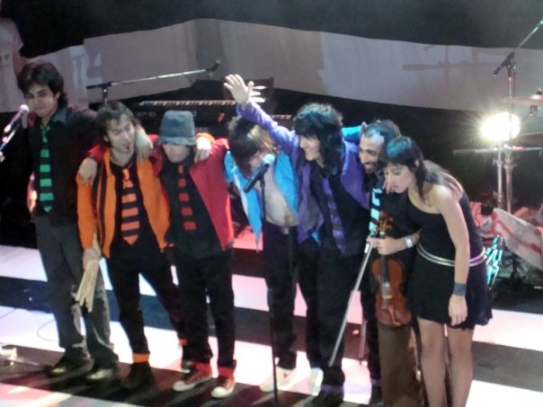 Farewell!.